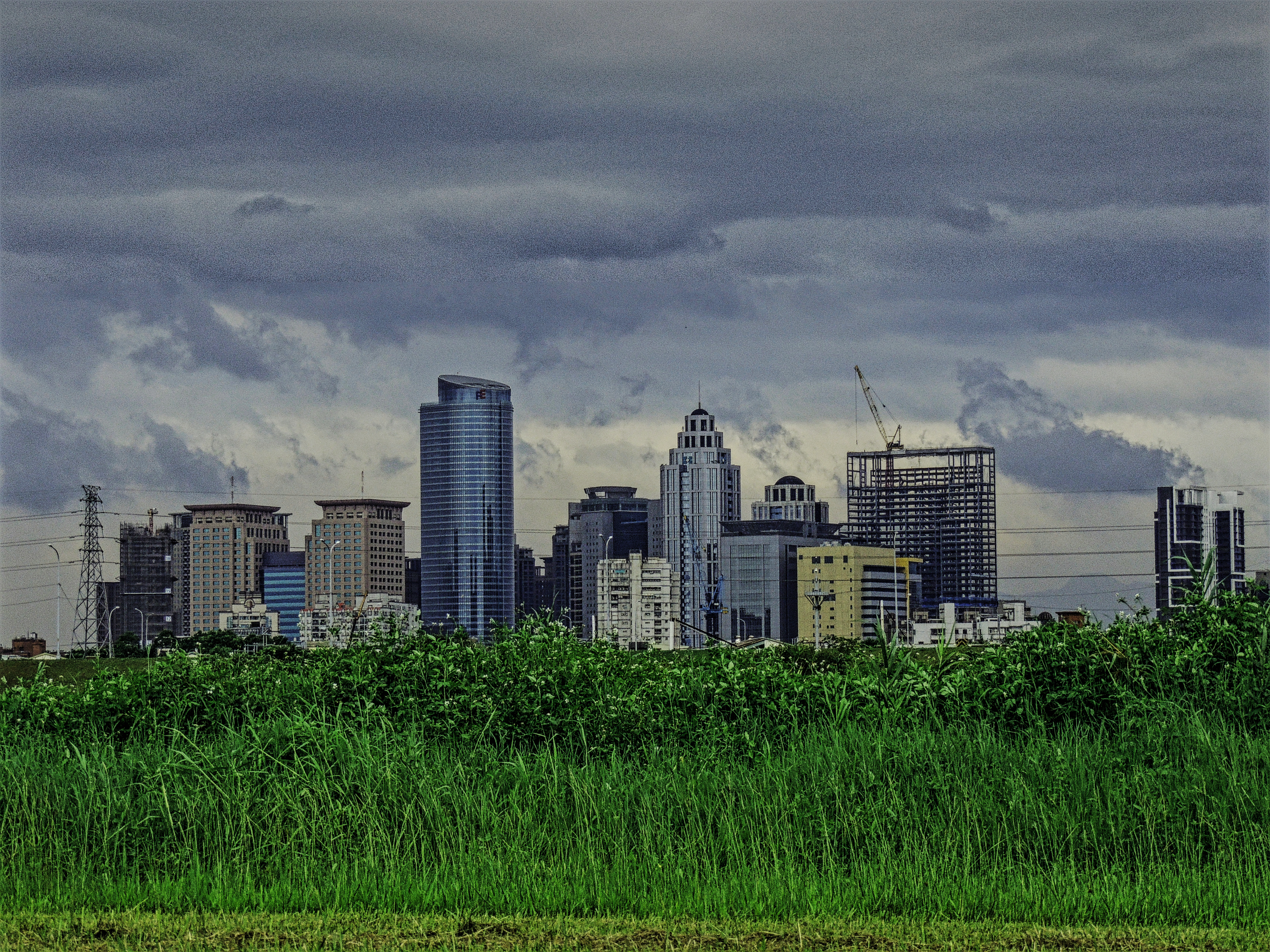 Skyline of Banqiao District, New Taipei City, Taiwan.